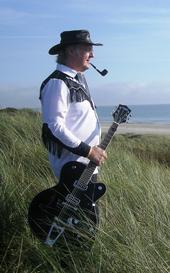 The Danish musician Poul Henning Andresen